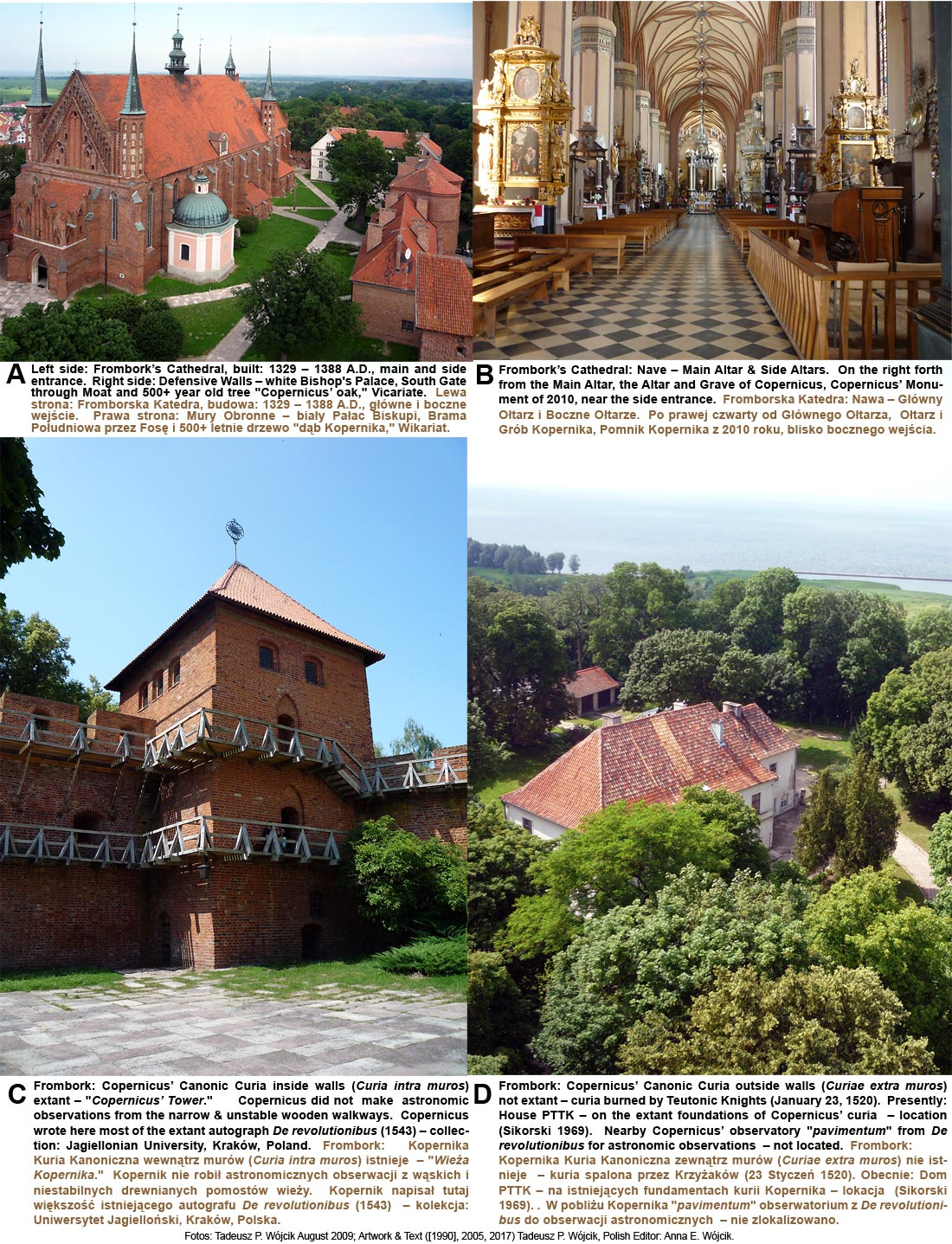 A Left side: Frombork’s Cathedral, built: 1329– 1388 A.D., main and side entrance. Right side: Defensive Walls – white Bishop's Palace, South Gate through Moat and 500+ year old tree "Copernicus’ oak," Vicariate. B Frombork’s Cathedral: Nave – Main Altar & Side Altars. On the right forth from the Main Altar, the Altar and Grave of Copernicus, Copernicus’ Monument of 2010, near the side entrance. C Frombork: Copernicus’ Canonic Curia inside walls (Curiae intra muros) extant – "Copernicus’ Tower." Copernicus did not make astronomic observations from the narrow & unstable wooden walkways. Copernicus wrote here most of the extant autograph De revolutionibus (1543) – collection: Jagiellonian University, Kraków, Poland.D Frombork: Copernicus’ Canonic Curia outside walls (Curiae extra muros) not extant – curia burned by Teutonic Knights (January 23, 1520). Presently: House PTTK – on the extant foundations of Copernicus’ curia – location (Sikorski 1969). Nearby Copernicus’ observatory "pavimentum" from De revolutionibus for astronomic observations – not located. Photographs: Tadeusz P. Wójcik August 2009; Artwork & Text ([1990], [2005], composite-graphics: December 2017) Tadeusz P. Wójcik, Polish Editor: Anna E. Wójcik.